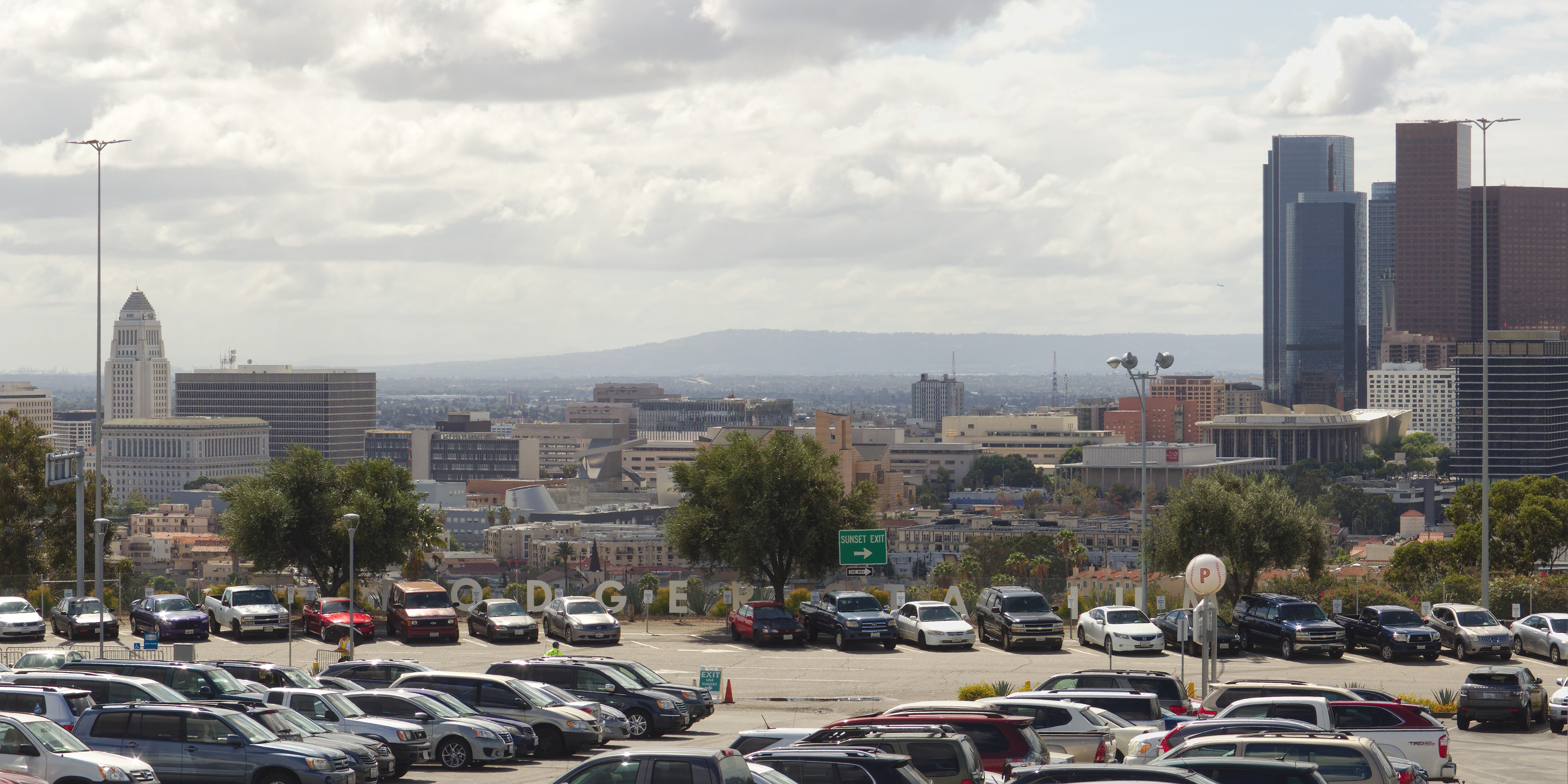 Panoramic view of downtown Los Angeles from Dodger Stadium.